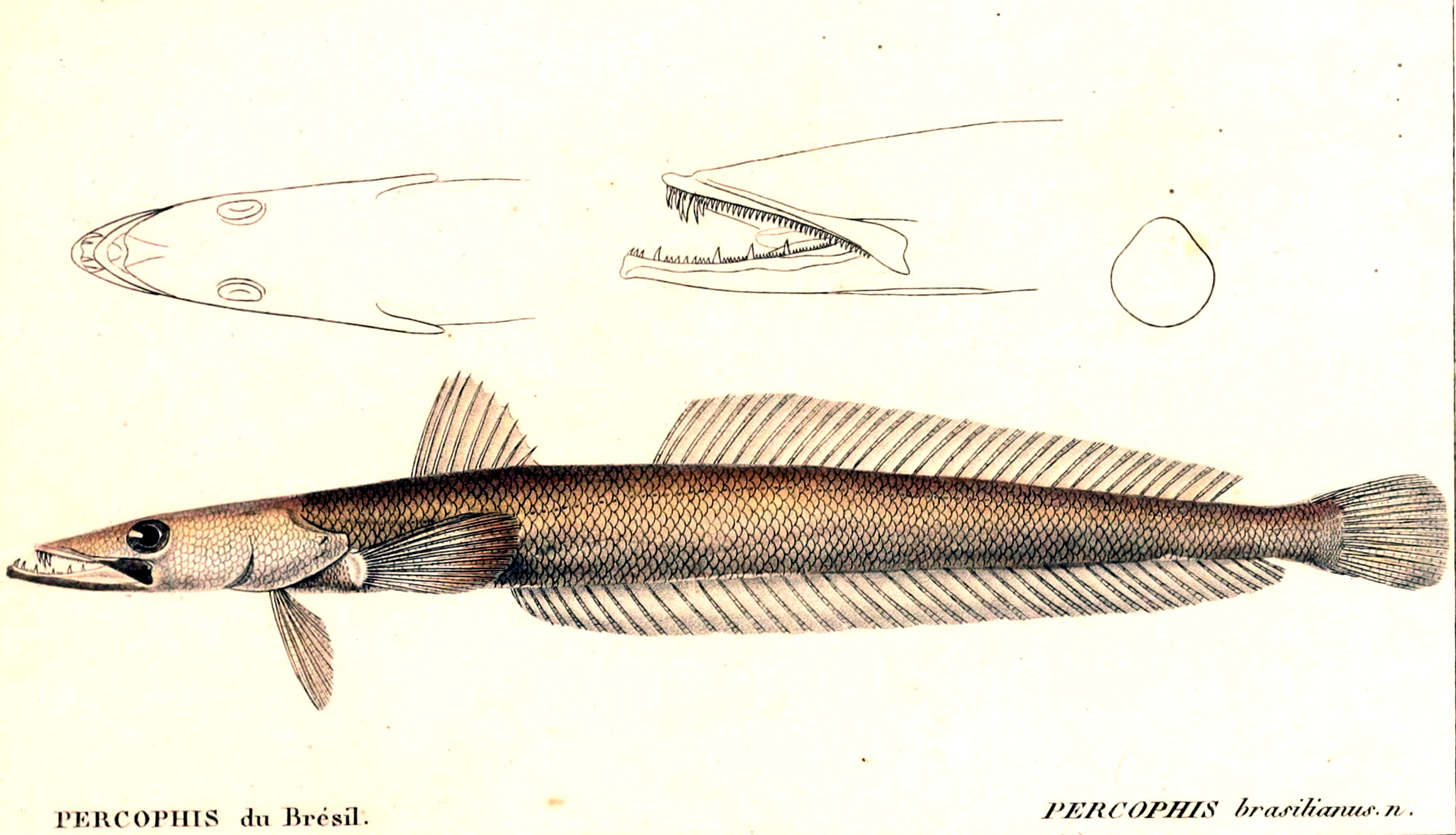 Percophis brasiliensis Quoy & Gaimard, 1825.